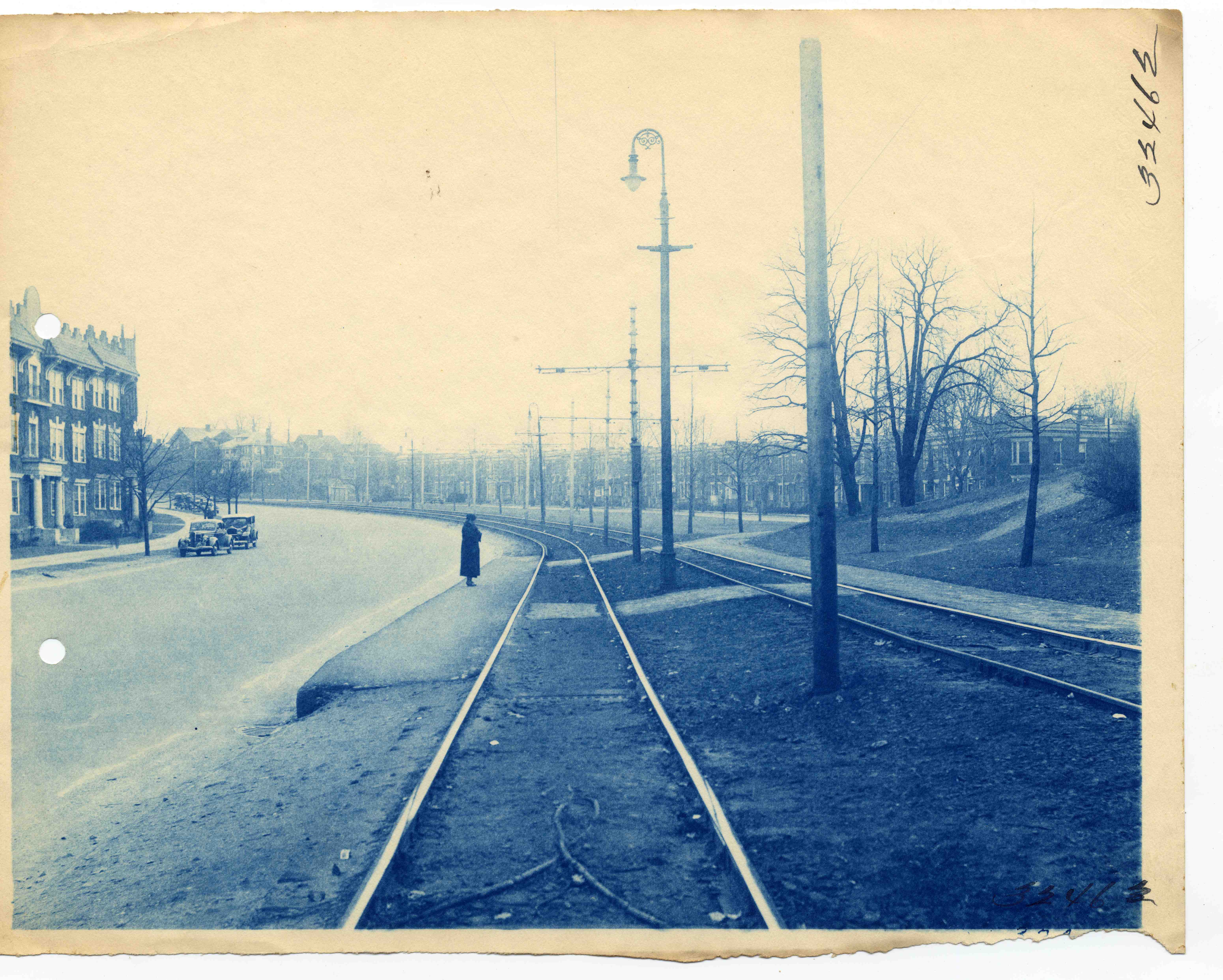 A lone passenger waits on the inbound platform at Leamington Road on a winter day